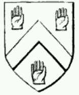 Maynard Arms. SIR HENRY MAYNARD knt grandson of John May nard eaq MP for St Albane purchased Estaines in the county of Essex and was subsequently designated therefrom He was secretary to Burghley represented the county of Essex in parliament in the time of ELIZABETH and was sheriff in the last year of her mujesty's reign Sir Henry in Susan daughter and co heir of Thomas Pearson esq and had with other issue i WILLIAM his tuiccessor u Juhn Sir KB of Tooting in Surrey MP for Lostwithiel in 1040 He was impeached in 1047 of high treason expelled the House of Commons and committed prisoner to the Tower He d in 1653 leaving a son Sir John Maynard KB who d in 1605 leaving an only daughter and heir A Genealogical and Heraldic History of the Extinct and Dormant Baronetcies of England, Ireland and Scotland 2. ed. [Illustr.] By John Burke